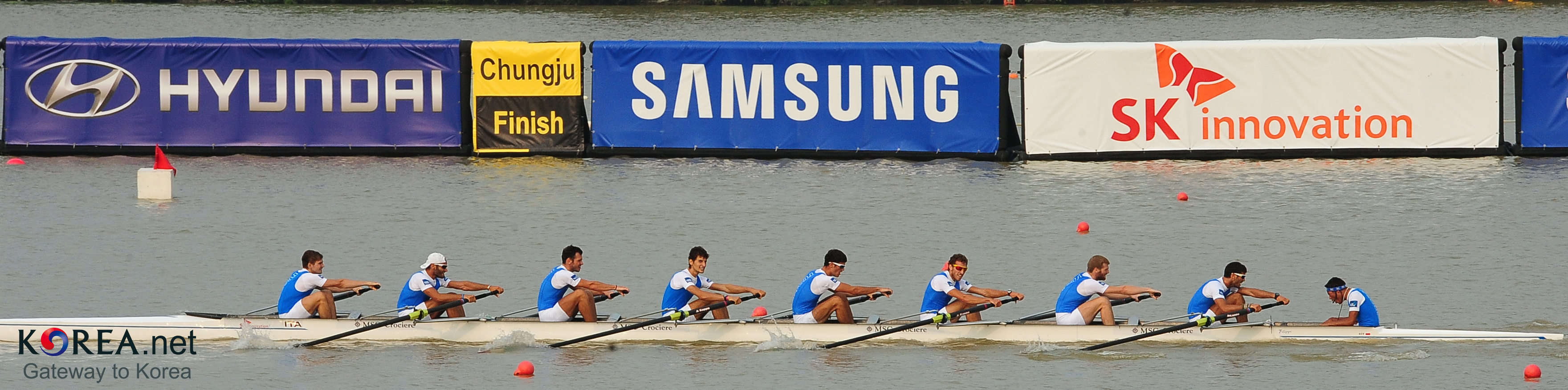 2013 Chungju World Rowing Championships - final. From left Simone Molteni, Catello Amarante, Petru Zaharia, Leone Barbaro, Stefano Oppo, Vincenzo Serpico, Francesco Schisano, Paolo Di Girolamo, Enrico D'Aniello (cox)